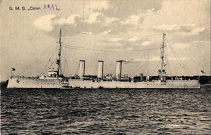 Pre-war postcard of the German light Cruiser SMS Cöln, sunk at the battle of Heligoland Bight, on 28 August 1914